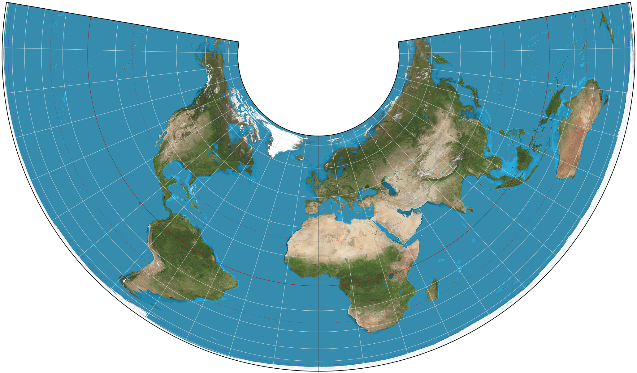 The world on Albers projection. 15° graticule, standard parallels at 20°N and 50°N. Imagery is a derivative of NASA’s Blue Marble summer month composite with oceans lightened to enhance legibility and contrast. Image created with the Geocart map projection software.